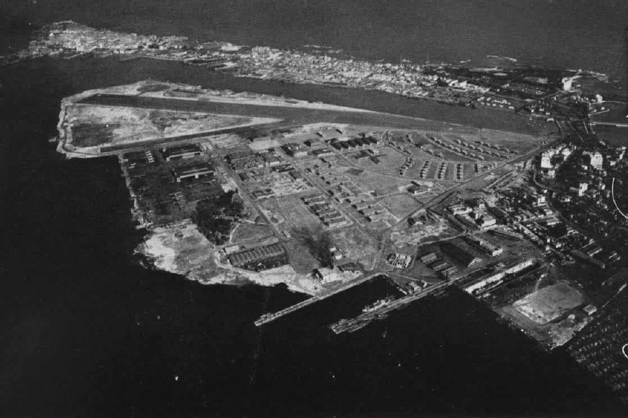 The U.S. Navy Naval Air Station San Juan, Puerto Rico, about 1946-1947, today Luis Muñoz Marín International Airport.